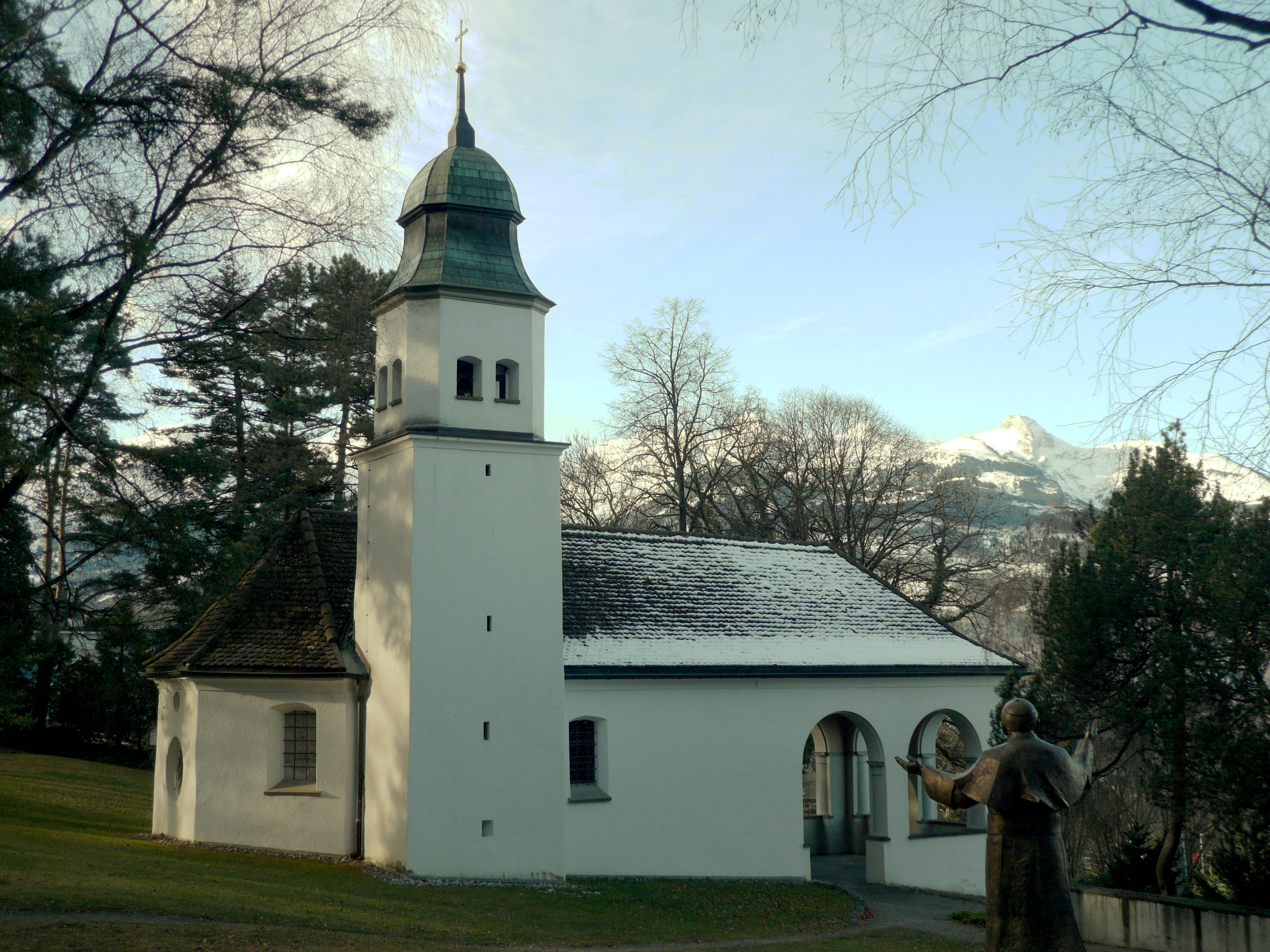 Kapelle Dux at Schaan/Liechtenstein